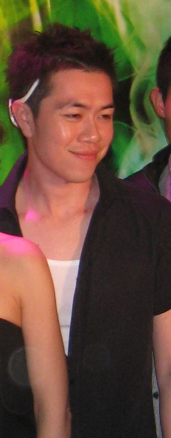 Prem Bussarakamwong at 7th Anniversary of MTV Thailand